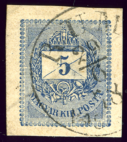 Kingdom of Hungary, 5 kr Postal stationery, cancelled at RUM (Vas comitat) in 1878 (Hungary).